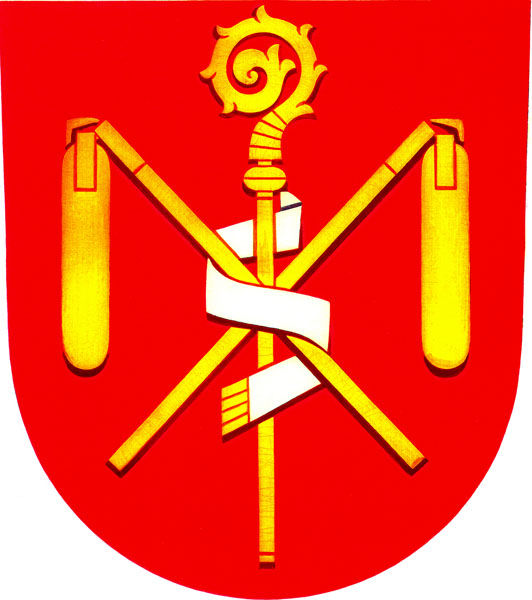 Municipal coat of arms of Opatovice village, Přerov District, Czech Republic.